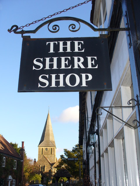 The Shere Shop Prominent shop sign on the south side of The Square in Shere. St James, the venerable parish church, is in the background.